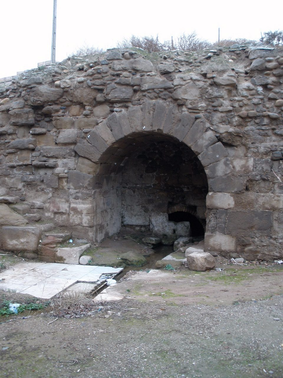 Ninfeo romano de Alfaro (La Rioja, España)